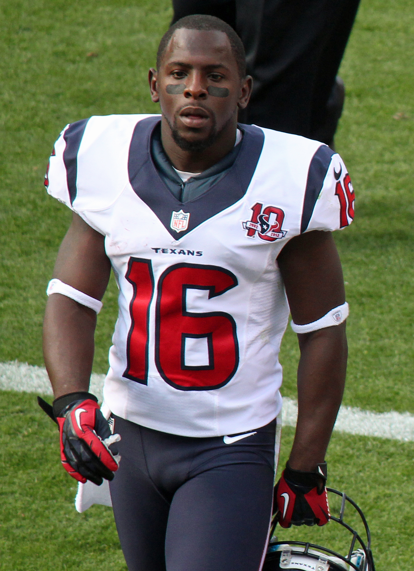 Trindon Holliday, a player on the National Football League.